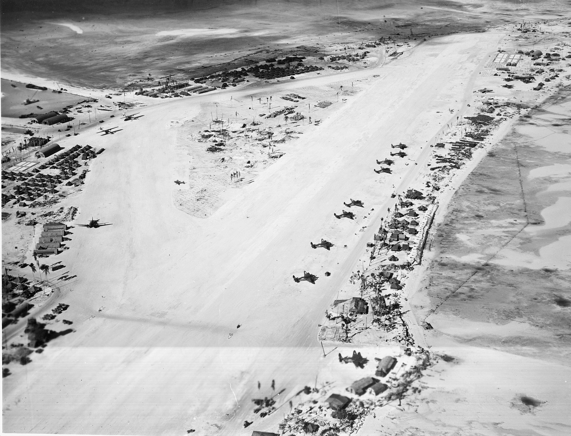 Aerial photograph of Hawkins Field, Betio Island, Tarawa Atoll, Gilbert Islands in March 1944. Visible on the airfield runways are a Douglas R4D, two Consolidated PBY-5A Catalinas, and several Lockheed PV-1 Venturas. Elements of squadrons assigned to Tarawa in March 1944 included VP-52, VP-72, VP-102, VB-142, and VB-144.